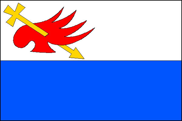 Municipal flag of Velký Osek village, Kolín District, Czech Republic.